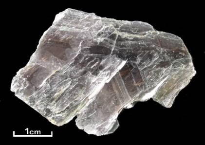 Mica